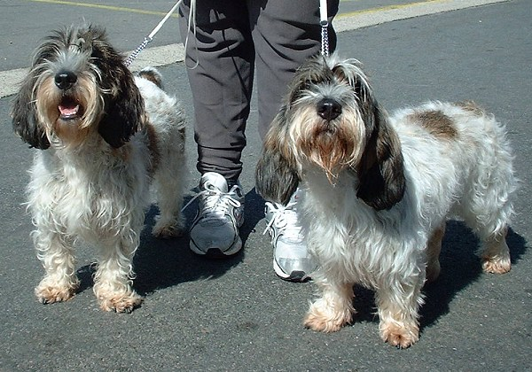 Petit Basset Griffon Vendeen: Debucher Yvette at Rushgrove (Evie) owned by Mrs Sue Farrell and Debucher Reverie (Suzy) owned by Mrs Gean Dodd. Photo taken at the City of Birmingham Championship Dog Show, 29th August 2003.